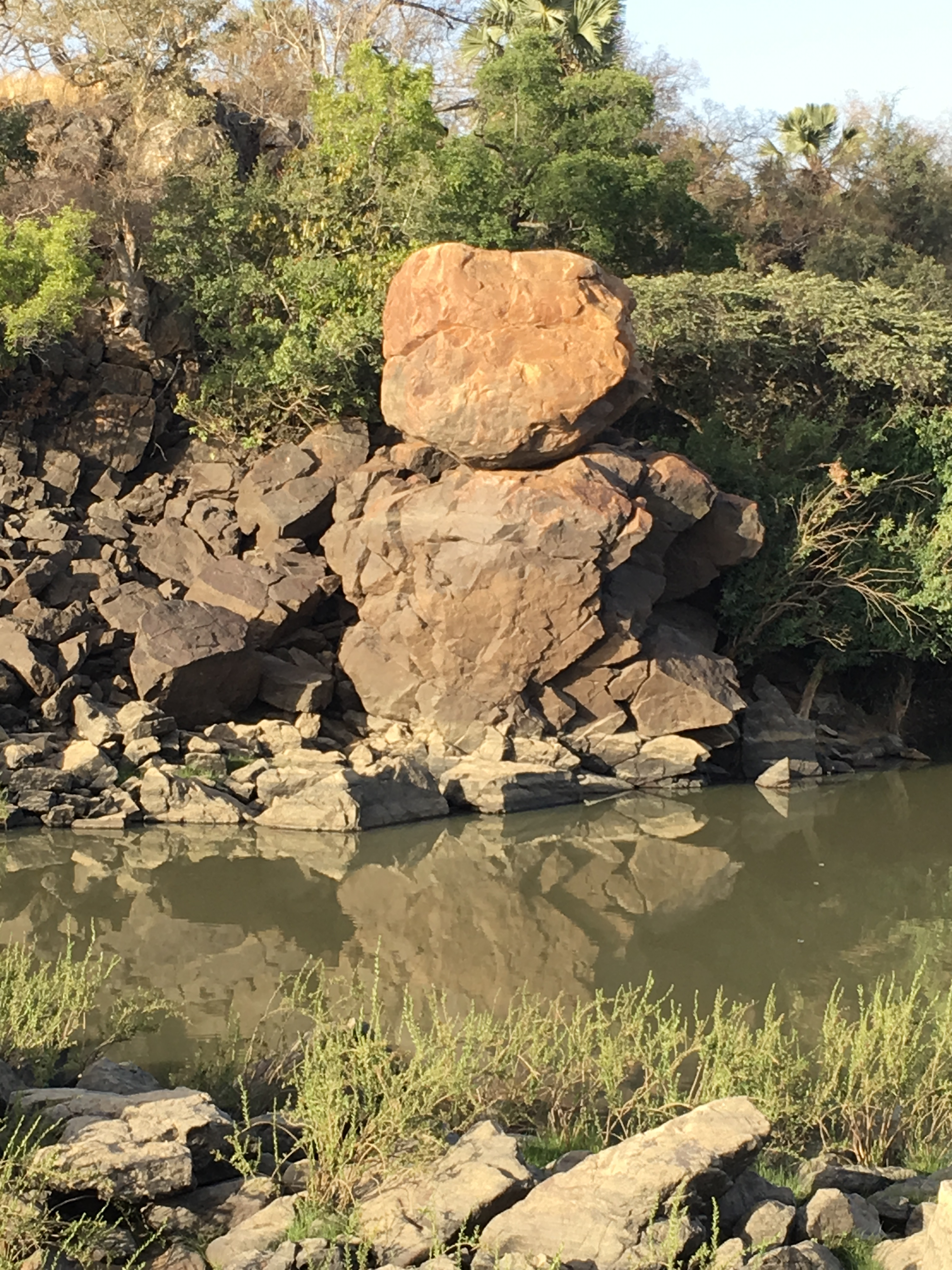 The chutes de Koudou is a wonderful, very quiet and peaceful place inside the national Parc W. Meditating at this particular place, close to the small waterfall it is like it if you have the world at your feet. Suddenly all your problems and concerns evaporate